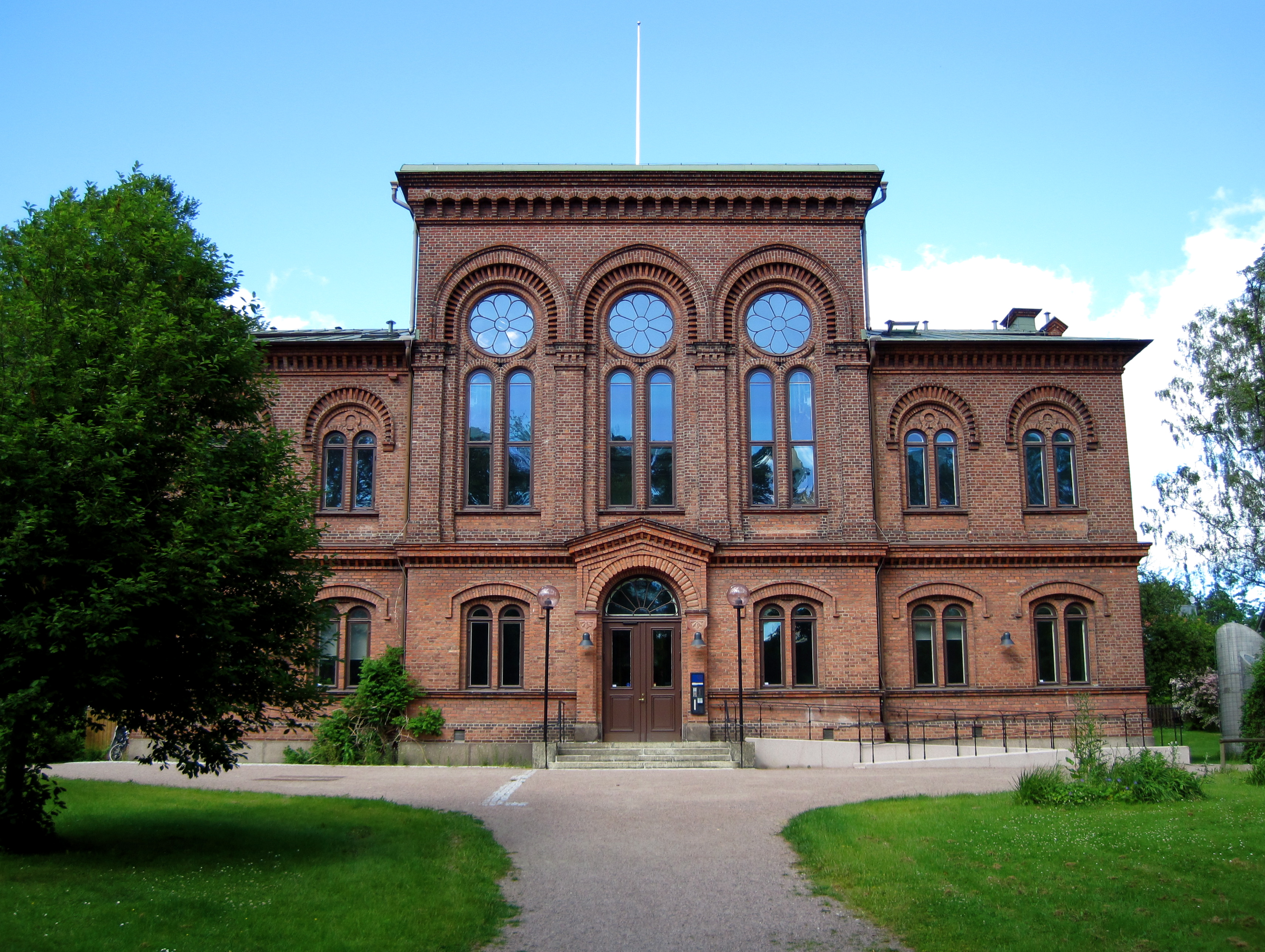 Pufendorfinstitutet, an institute for "advanced studies" at Lund University, established in 2008. The institute is housed in a building erected in 1883-1886 which has earlier served as department of first physics and later classical languages.